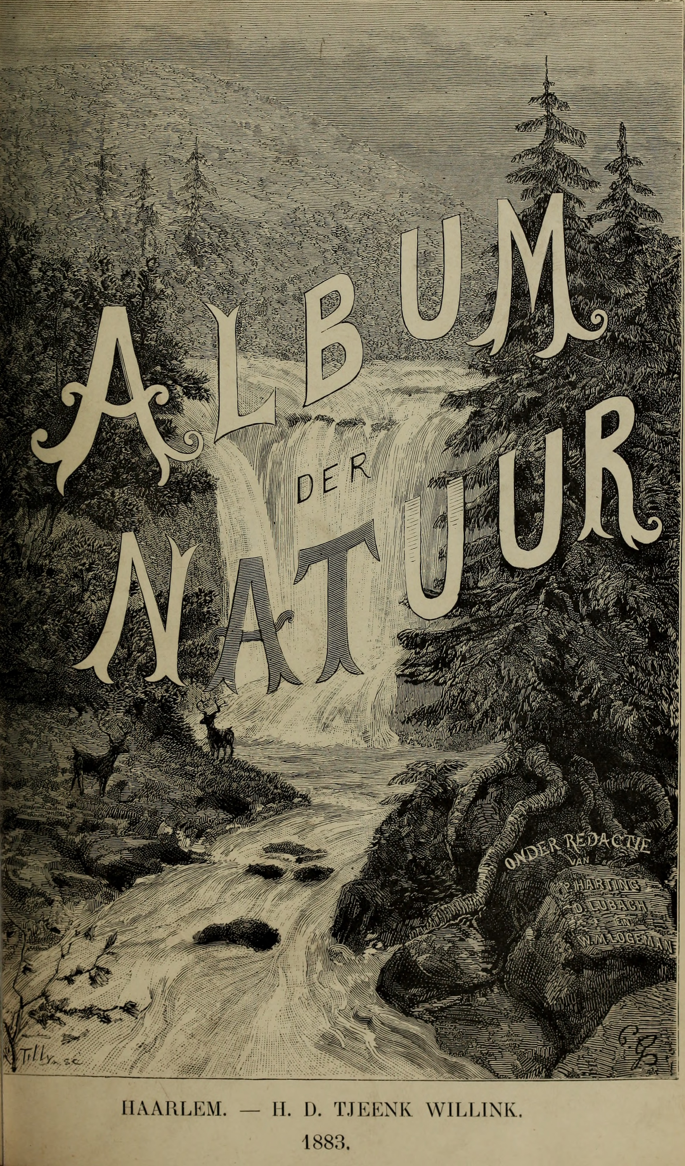 Title: Album der Natuur Year: [1] (s) Authors: Subjects: Publisher: Haarlem Text Appearing Before Image: ' Text Appearing After Image: IL D. T.TEENK WILLINK. 1883